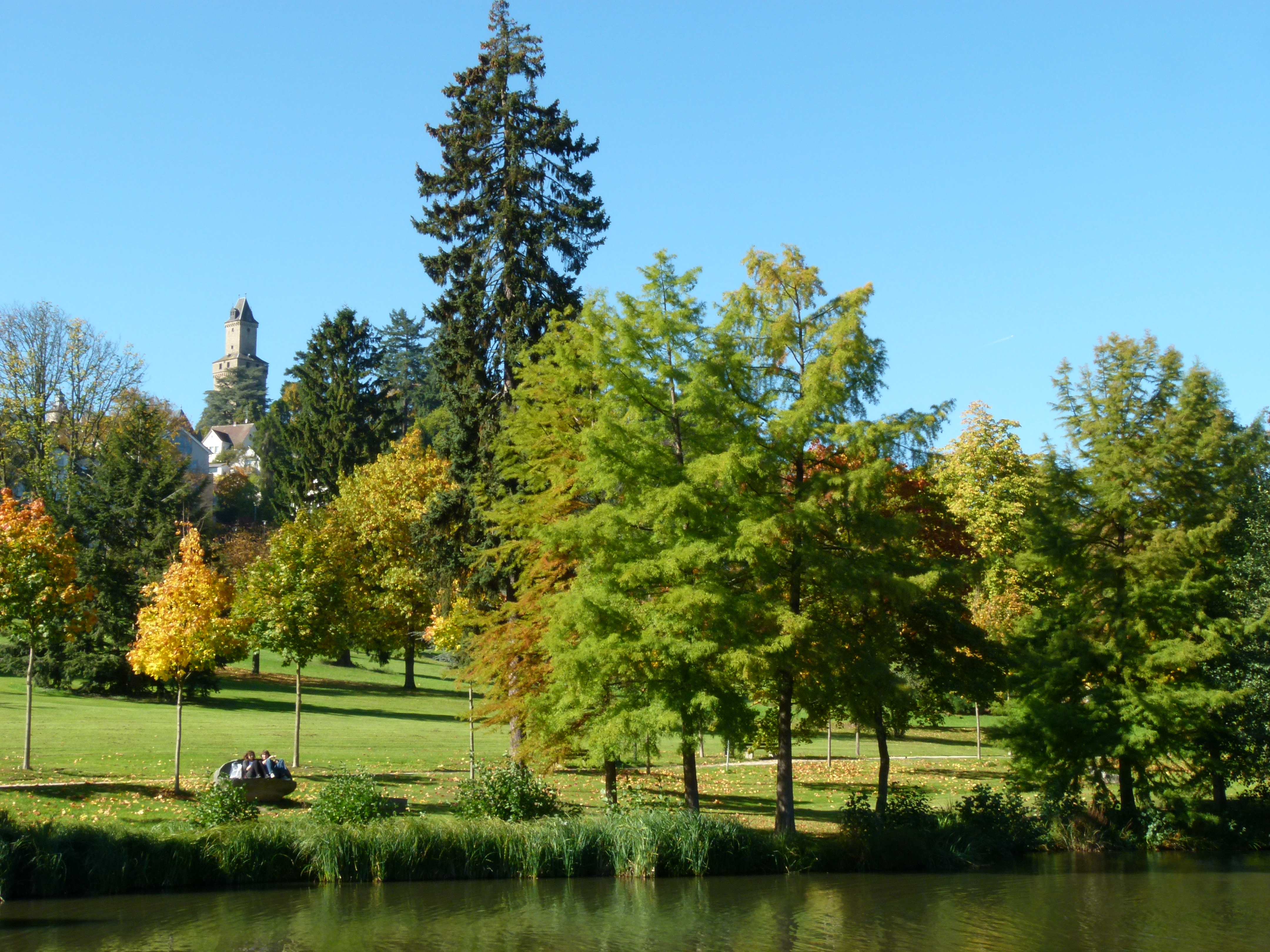 Kronberg Victoria Park: View from Schiller Lake towards kronberg Castle